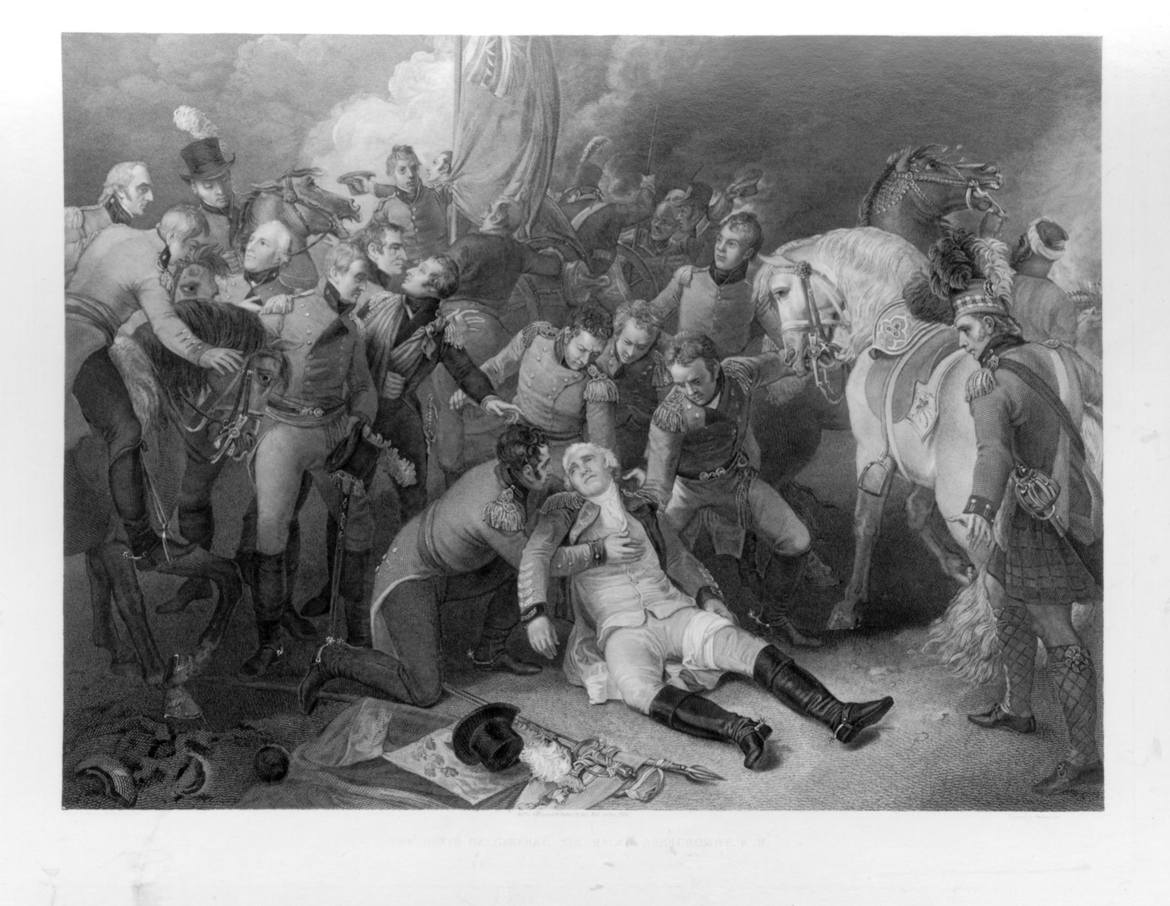 The Death of General Sir Ralph Abercromby, K.B., by Francis Legat (died 1809), published 1805. All images in this batch have been confirmed as author died before 1939 according to the official death date listed by the NPG.